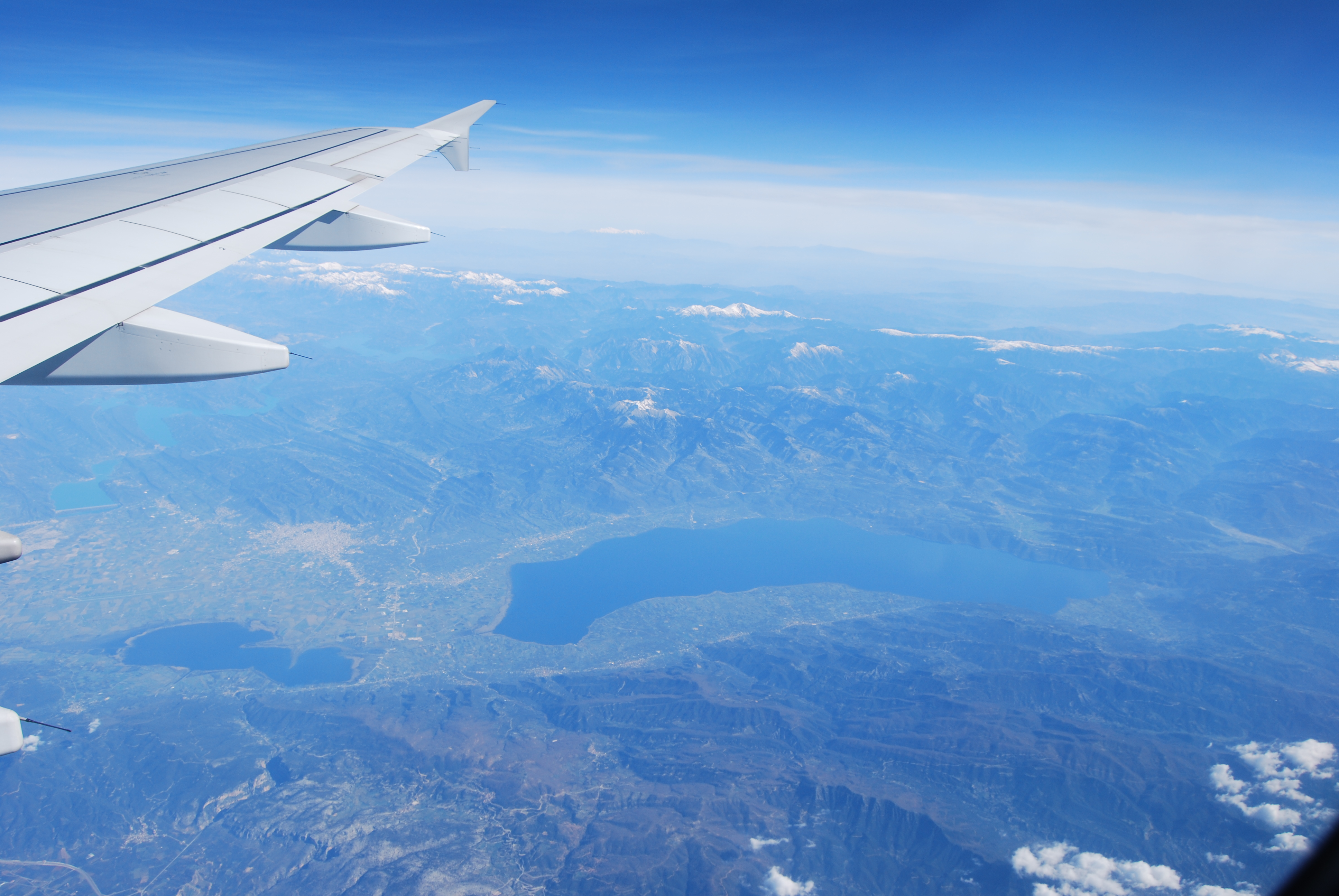 In the center, Lake Trichonida; west of this, Lake Lysimachia.